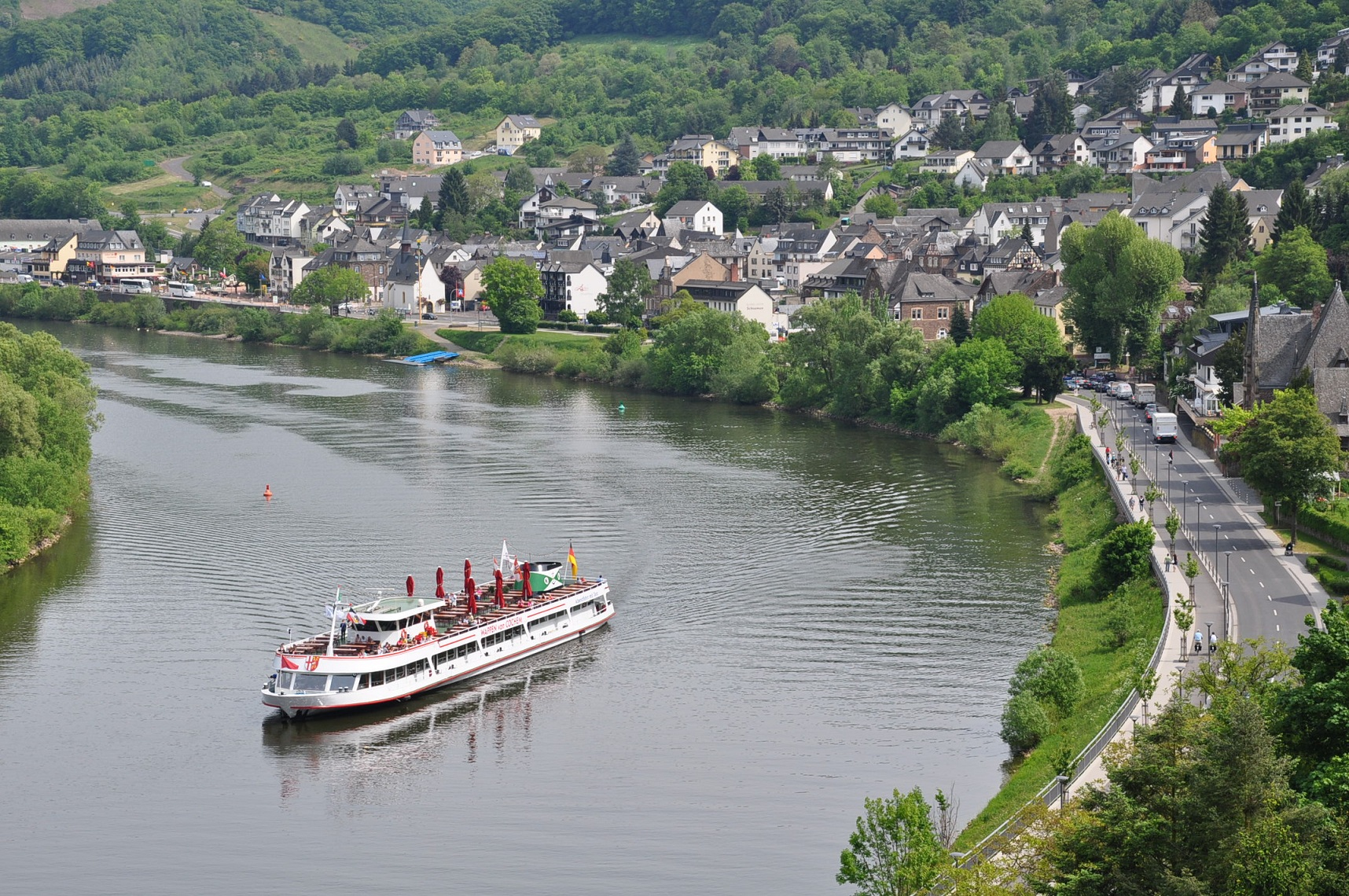 Sehl (on the river Moselle) is a part of the town of Cochem (Cochem-Zell district, Rhineland-Palatinate, Germany).